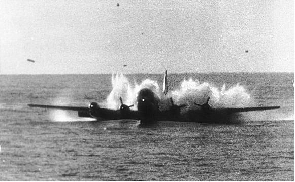 PanAmFlight6-Ditches-3 Pan American Flight 943 lands in the Pacific on Oct. 16, 1956. The Boing 377 Stratocruiser had lost power to two of its four engines and had to risk an emergency water landing. (William Simpson / US Coast Guard)